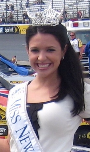 Miss NH, Krystal Muccioli, poses with Jimmie Johnson's #48 car. Krystal was crowned Miss New Hampshire in May, and Jimmie Johnson went on to win the Lenox 301 at New Hampshire Motor Speedway.